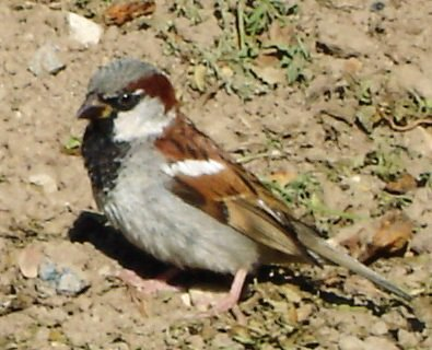 A male House Sparrow (Passer domesticus)